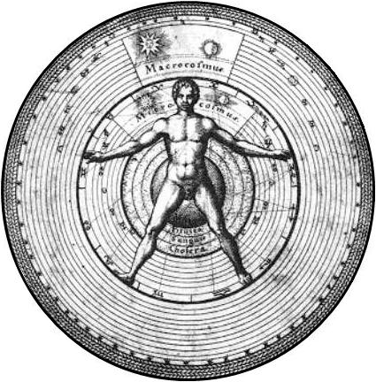 Chart of Micro-cosmos in Stoicism, by Robert Fludd, Utriusque cosmi: Metaphysica, Physica atque Technica Historia, Oppenhemii, 1617